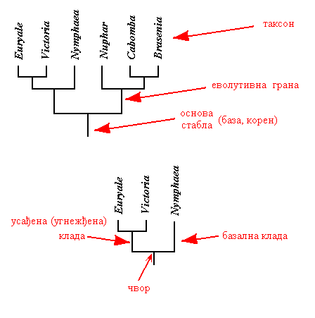 Explanation of basic terms in cladistics (in Serbian)